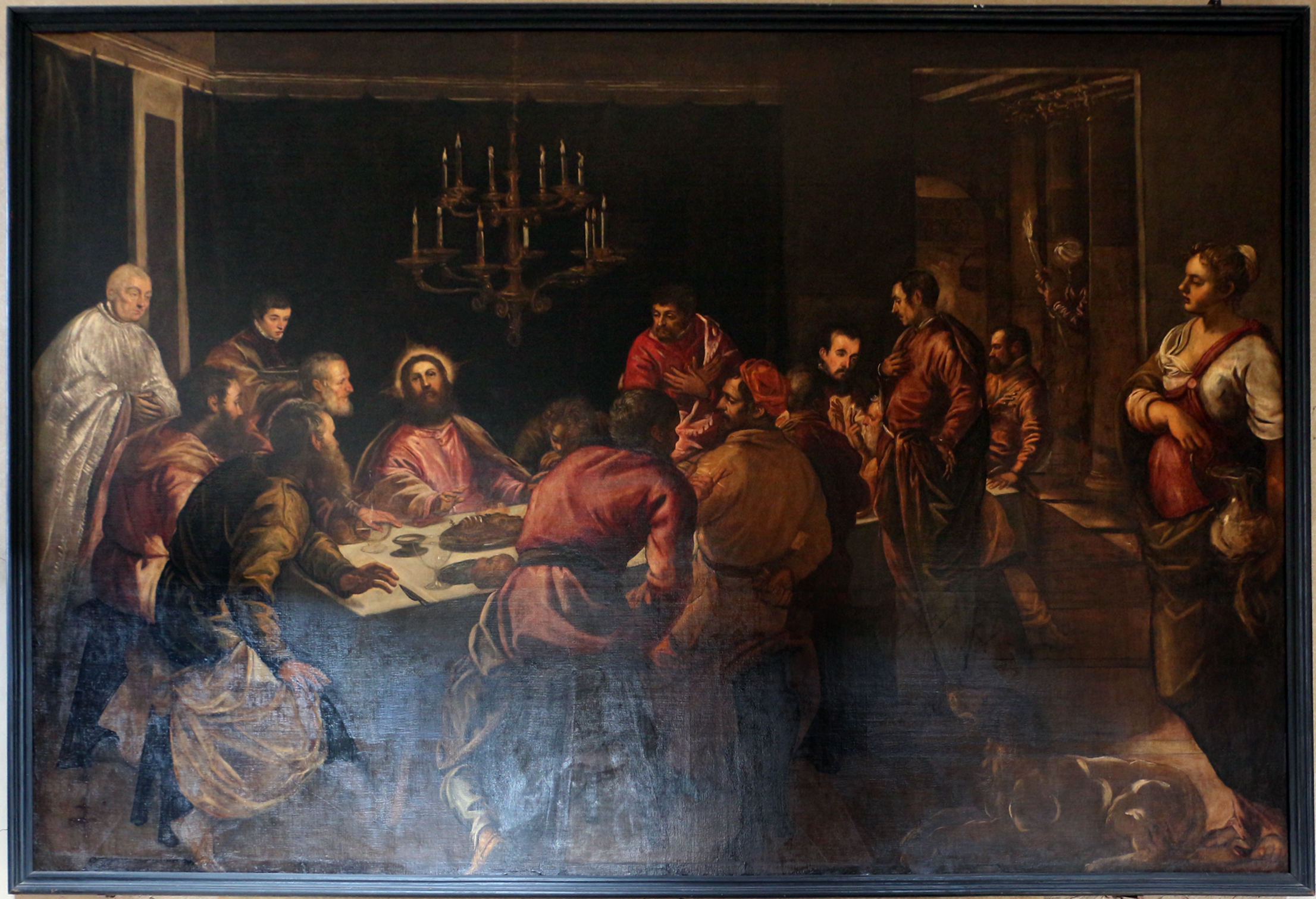 San Simeone profeta (Venice)